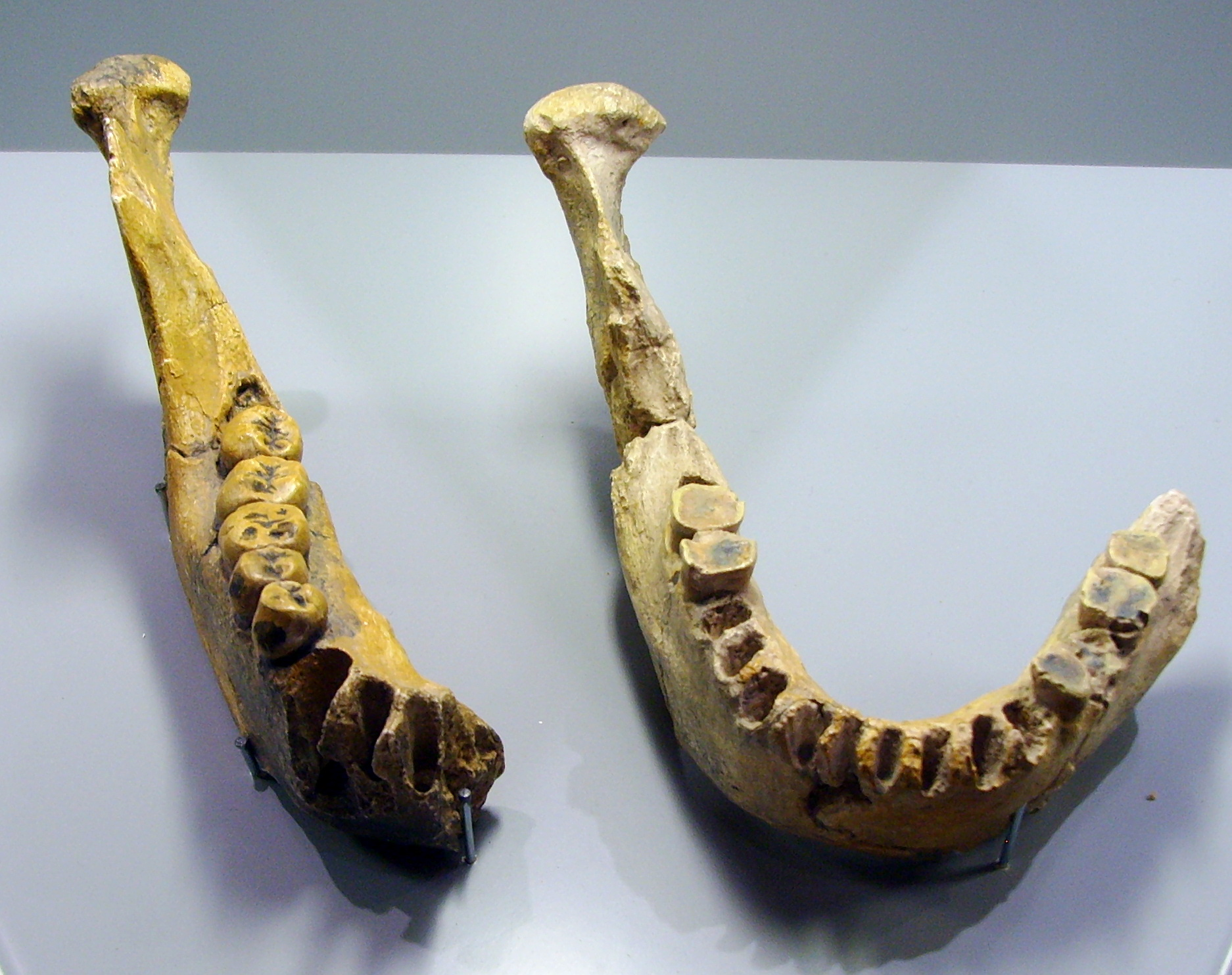 Lower jaw of Homo erectus from Tautavel, France (replica, Museum Mauer near Heidelberg): to the left: Arago XIII; to the right: Arago II